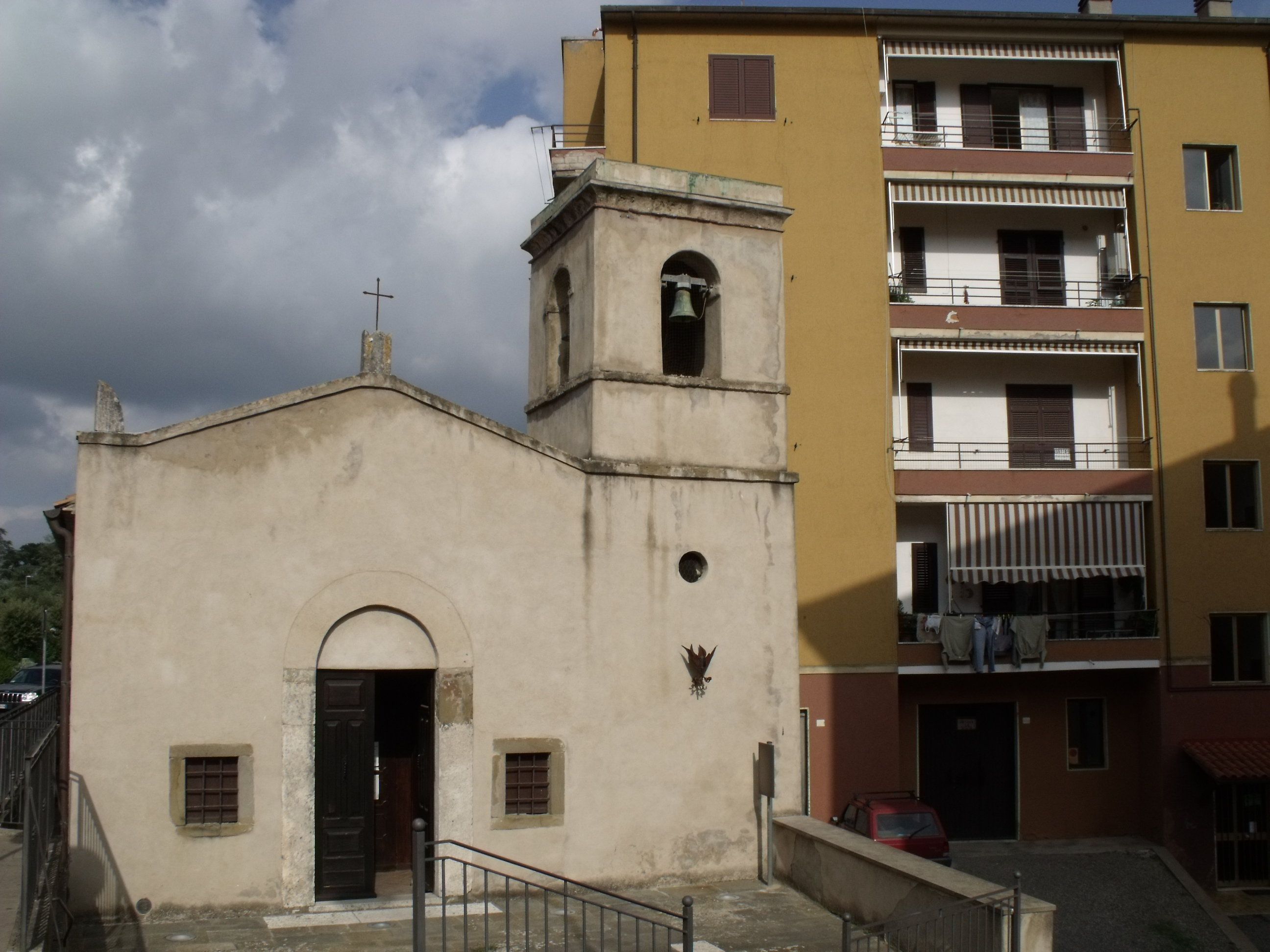 Church Chiesa della Annunziata in Manciano, Maremma, Province of Grosseto, Tuscany, Italy